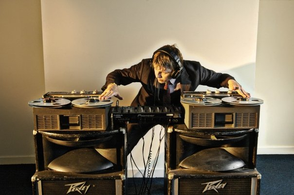 Photograph of Greg Wilson taken by Ian Tilton. It was used as artwork for the Credit To the Edit album compilation by Greg Wilson released on Tirk Records.